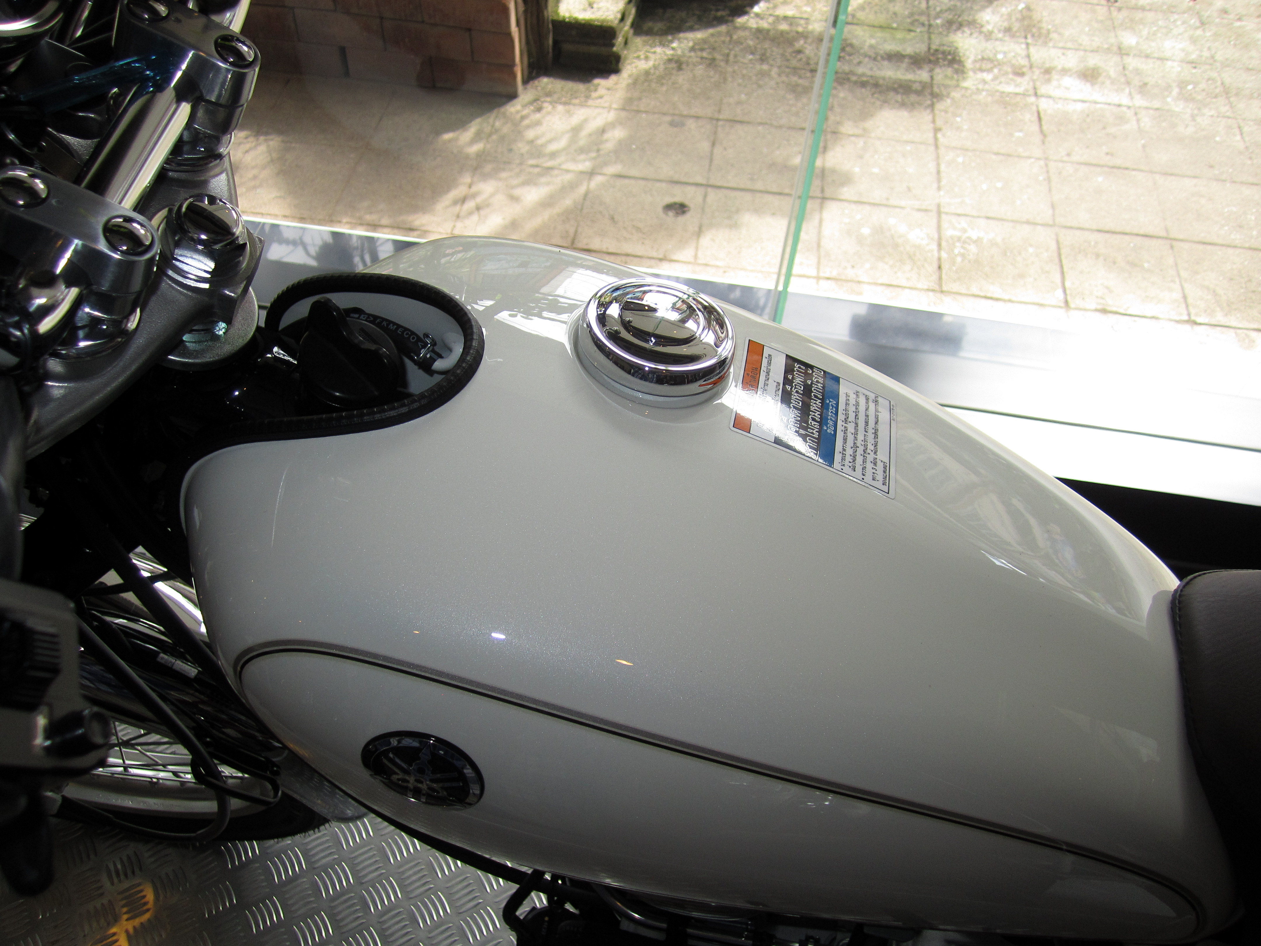 Fuel tank and oil-in-frame fill-up neck visible near the front fork clamp.